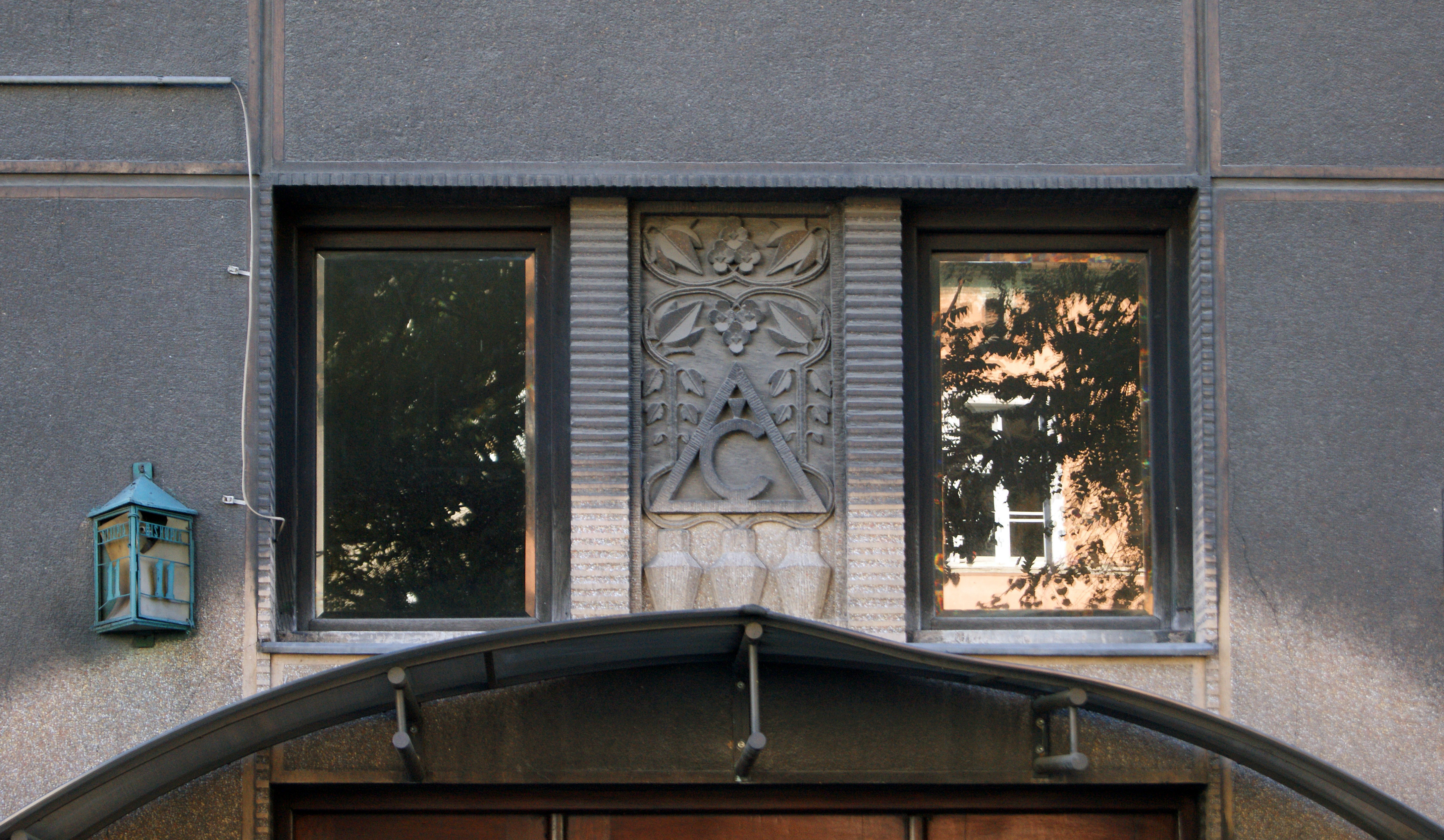 House, logo of Ćmielów's Porcelain plant, 11 Biskupia street, Krakow, Poland